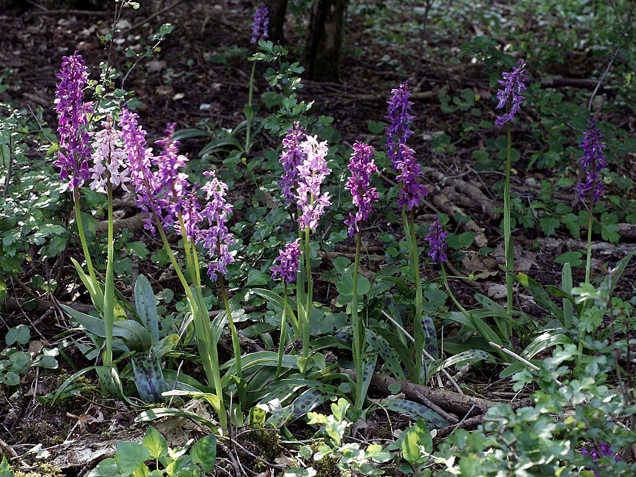 Orchis mascula